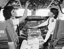 Captains Burns and Rippelmeyer on the flight deck of a Boeing 737.